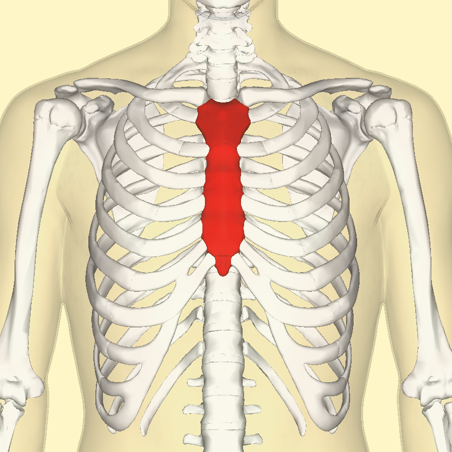 Sternum. Shown in red.